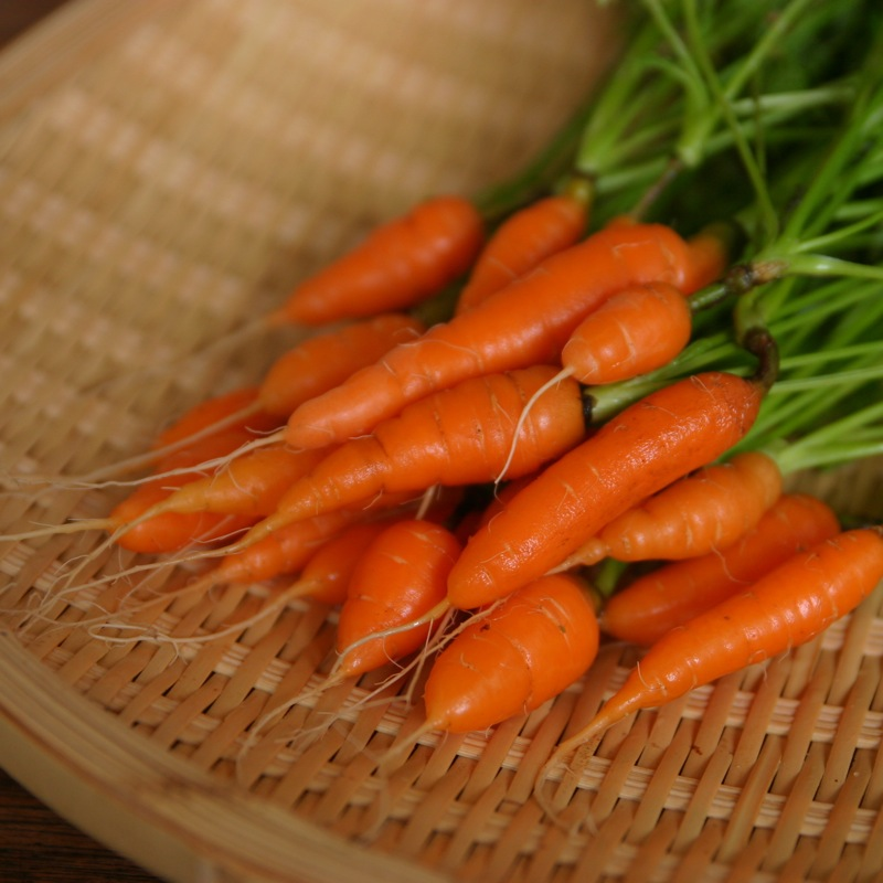 Real baby carrots, various sizes and shapes.